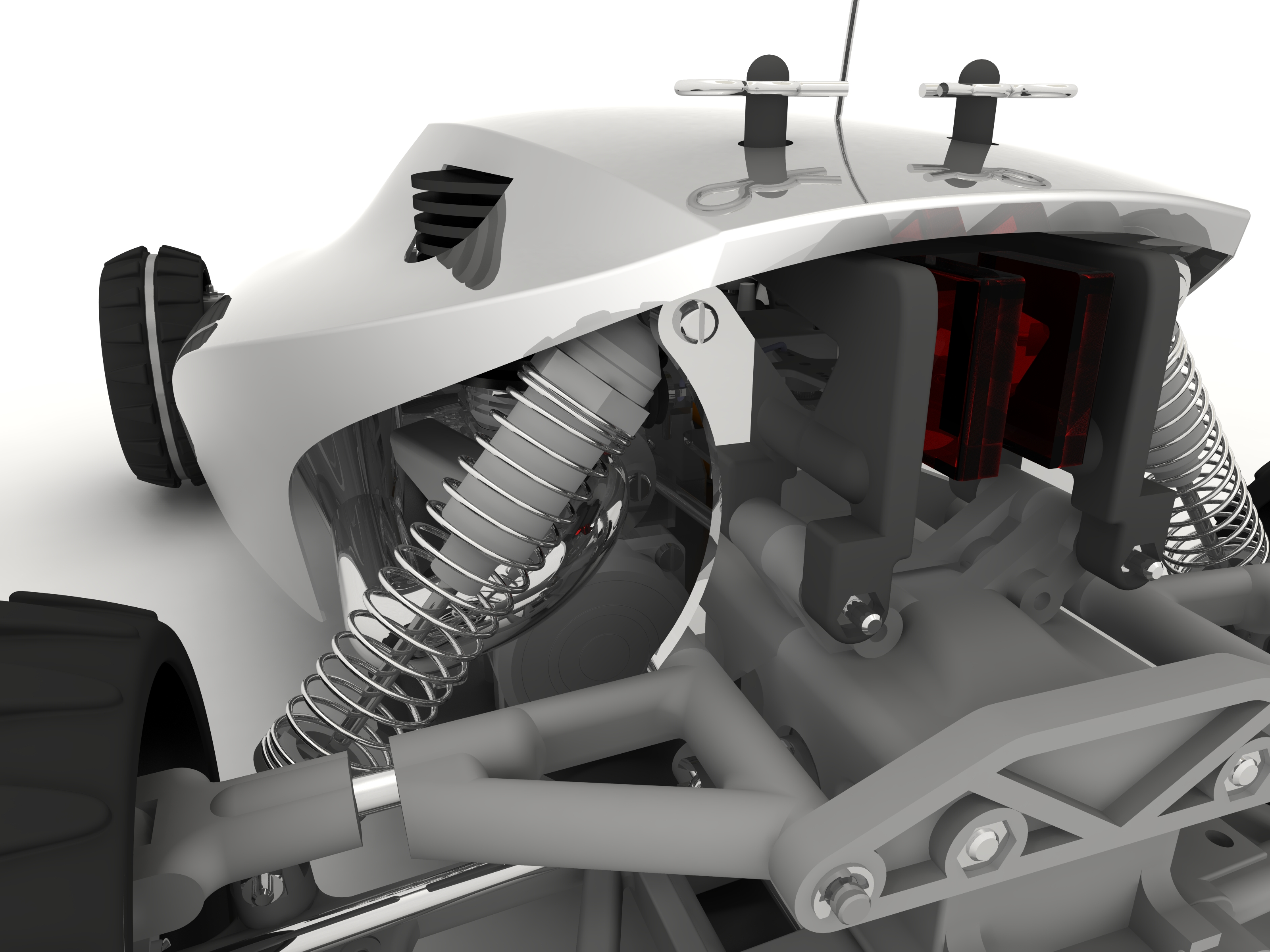 3D Model Created with CATIA and Rendering done with CATIA